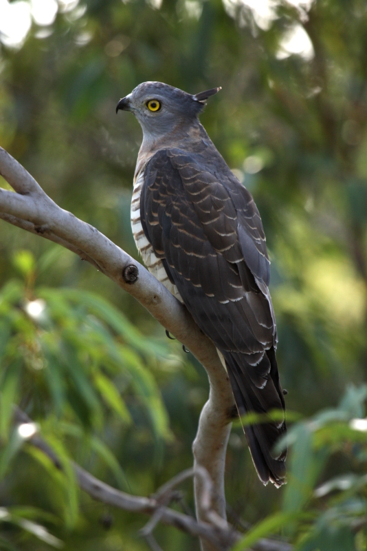 Pacific Baza (Aviceda subcristata) Kobble Creek, SE Queensland, Australia